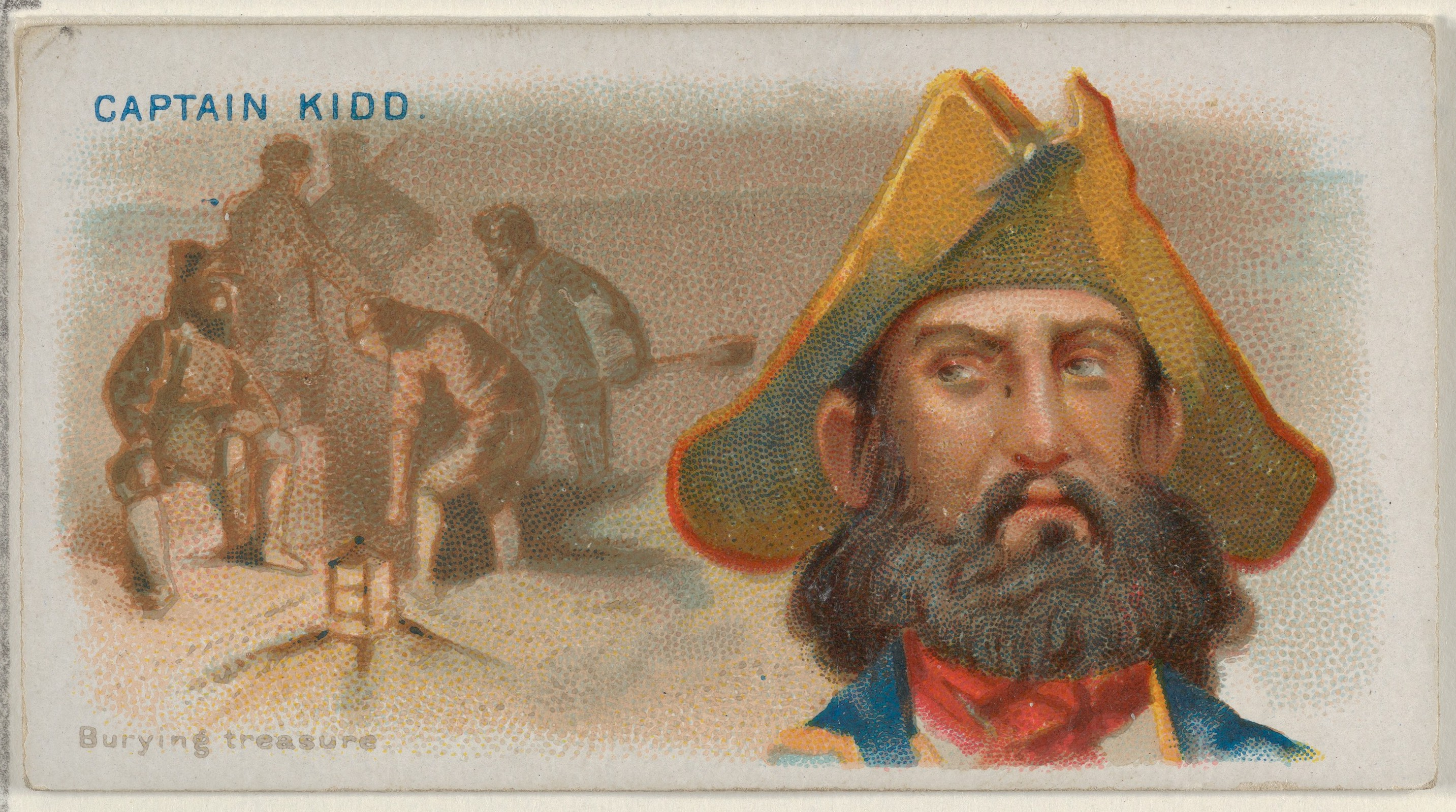 Print; Prints